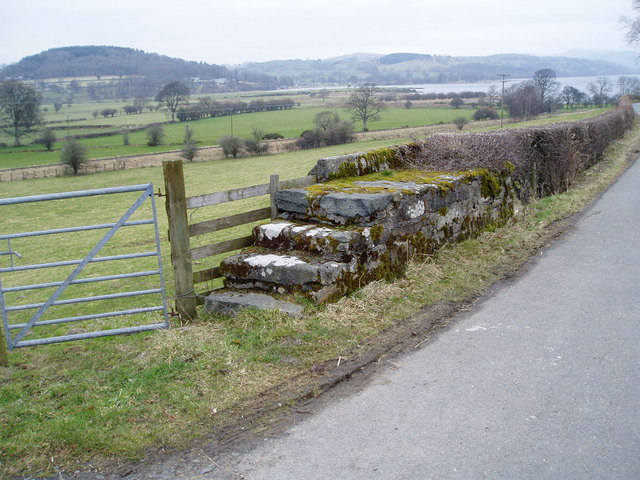 Churn stand at Llechweddystrad.